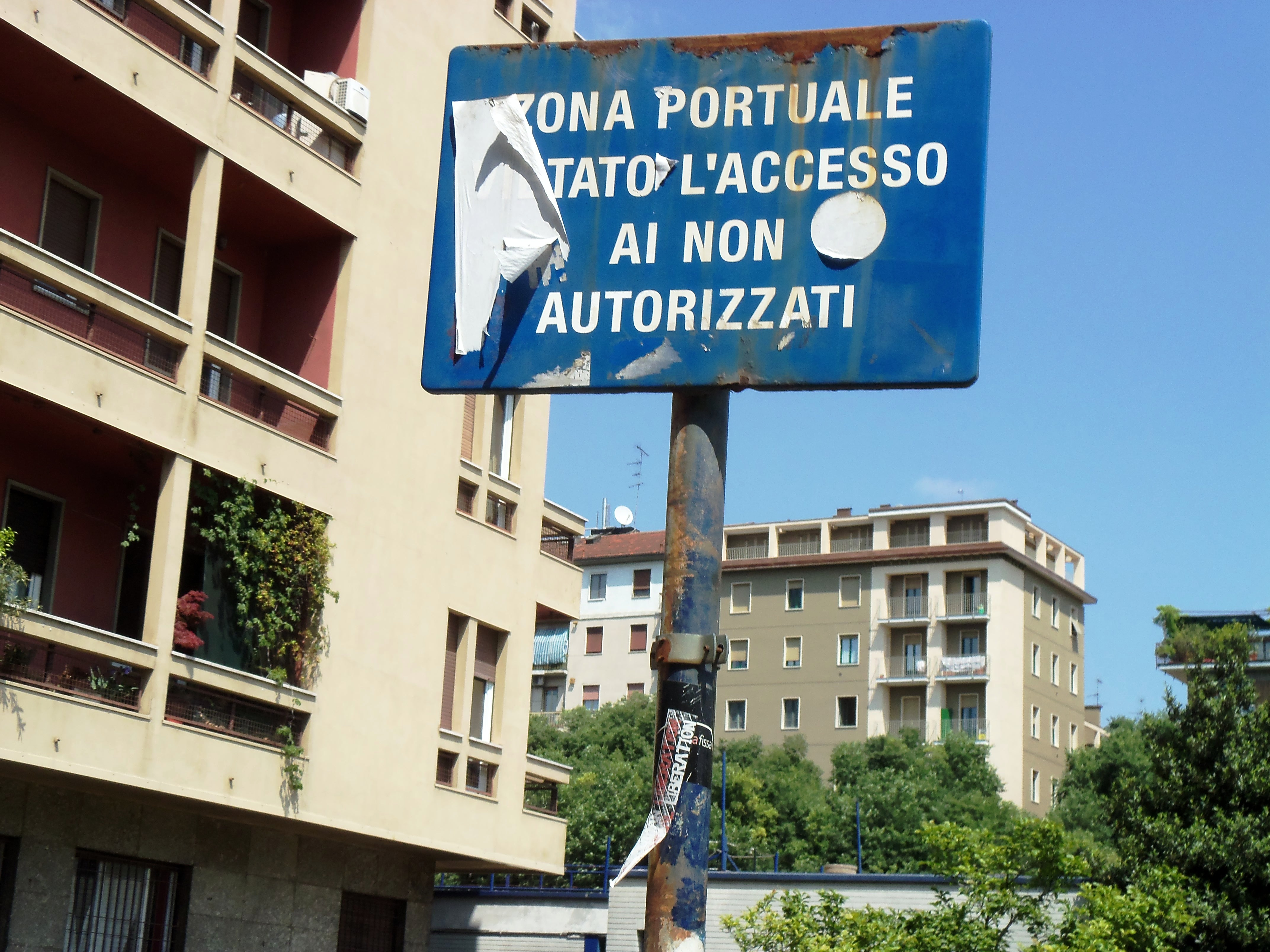 Milano, darsena: a surviving sign (Viale Gorizia, south side) of darsena port activities.